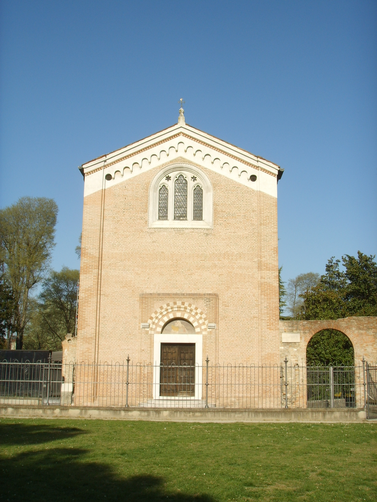 Facade of the Cappella degli Scrovegni (Scrovegni chaple) in Padua, Italy.